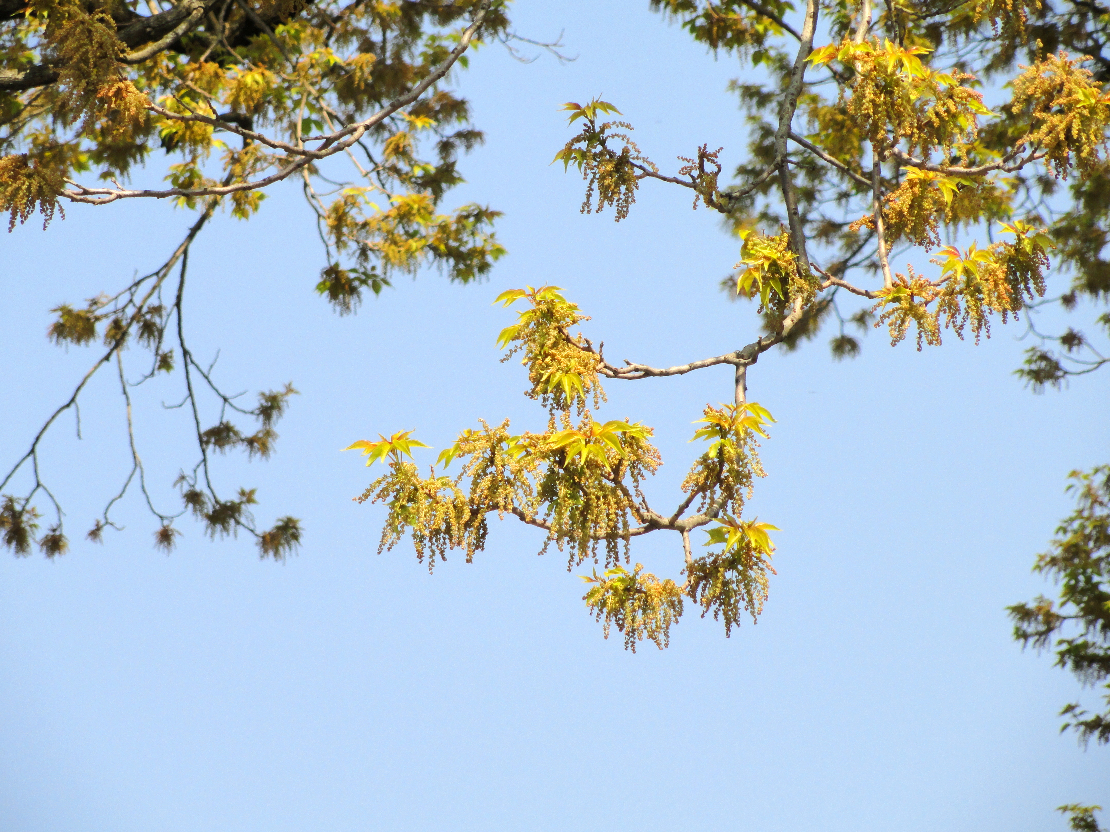 Bischofia javanica. Botanical specimen on the grounds of the Villa Taranto (Verbania), Lake Maggiore, Italy.